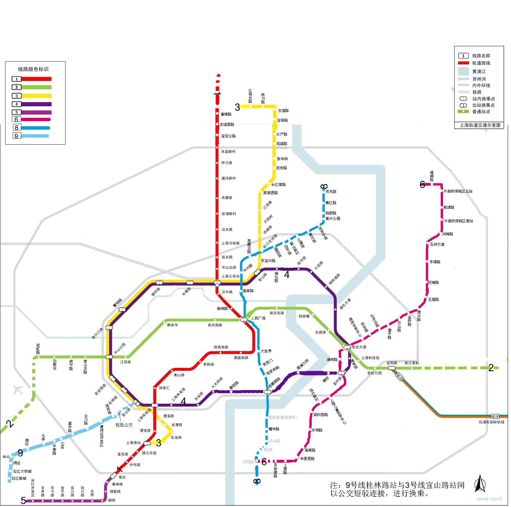 Shanghai metro map 2008, Chinese version. Based on image:Shanghai metro map.png